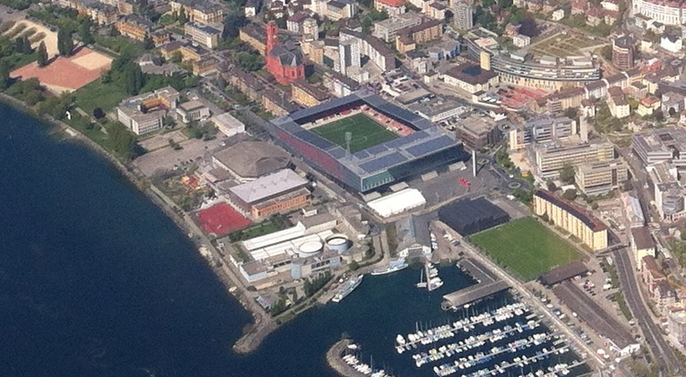 Neuchâtel and the area from above